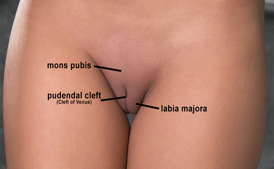 A diagram (of a woman with pubic hair Full Brazilian Wax, Full Bikini Wax, Hollywood, Sphynx style) illustrating the pudendal cleft (Cleft of Venus) in relation to the mons pubis and labia majora.